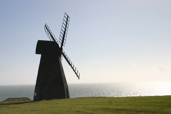 Taken by Anders Almaas